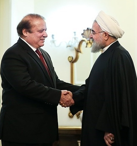 Hassan Rouhani in meeting with Pakistani Prime Minister Nawaz Sharif in Saadabad Palace, Tehran